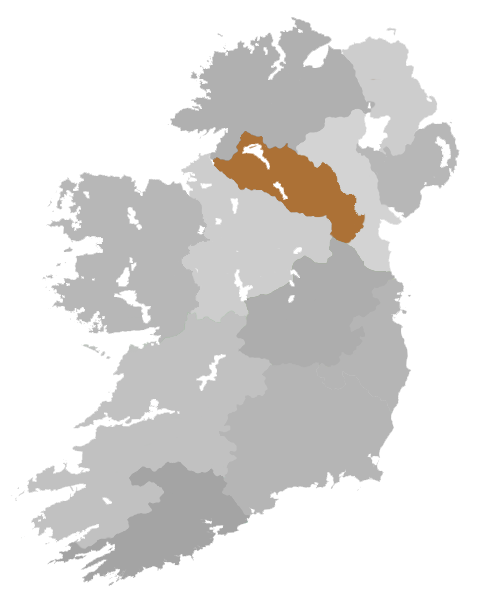 Location map of the Church of Ireland Diocese of Clogher Information source: Church of Ireland website]